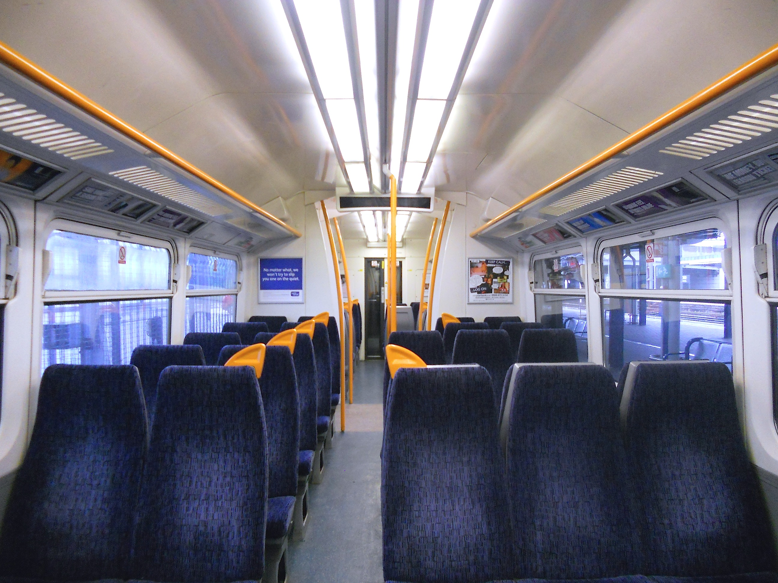 The refreshed Standard Class accommodation from a Southeastern Trains Class 465/9